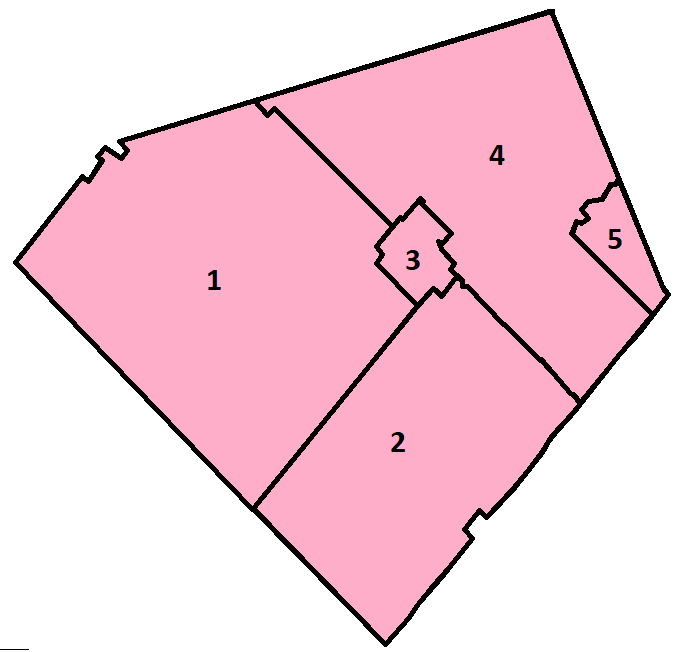 Map of Caledon, Ontario's wards